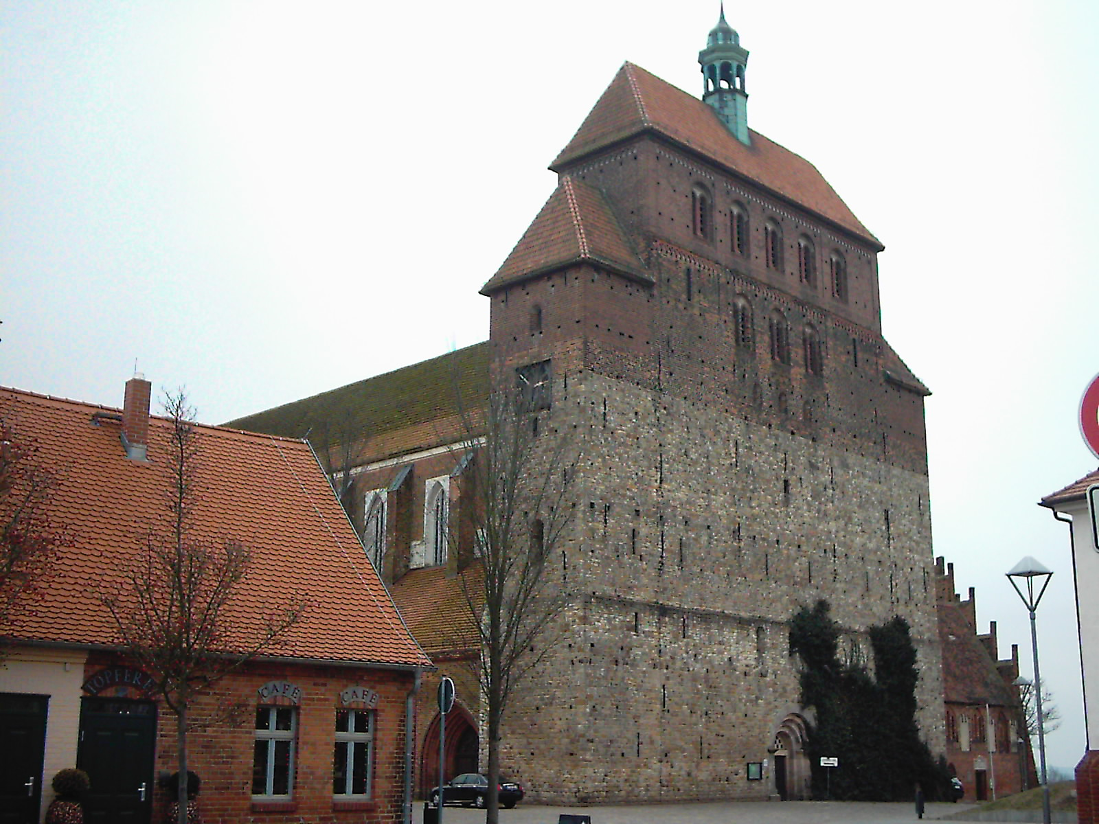 Havelberg Cathedral